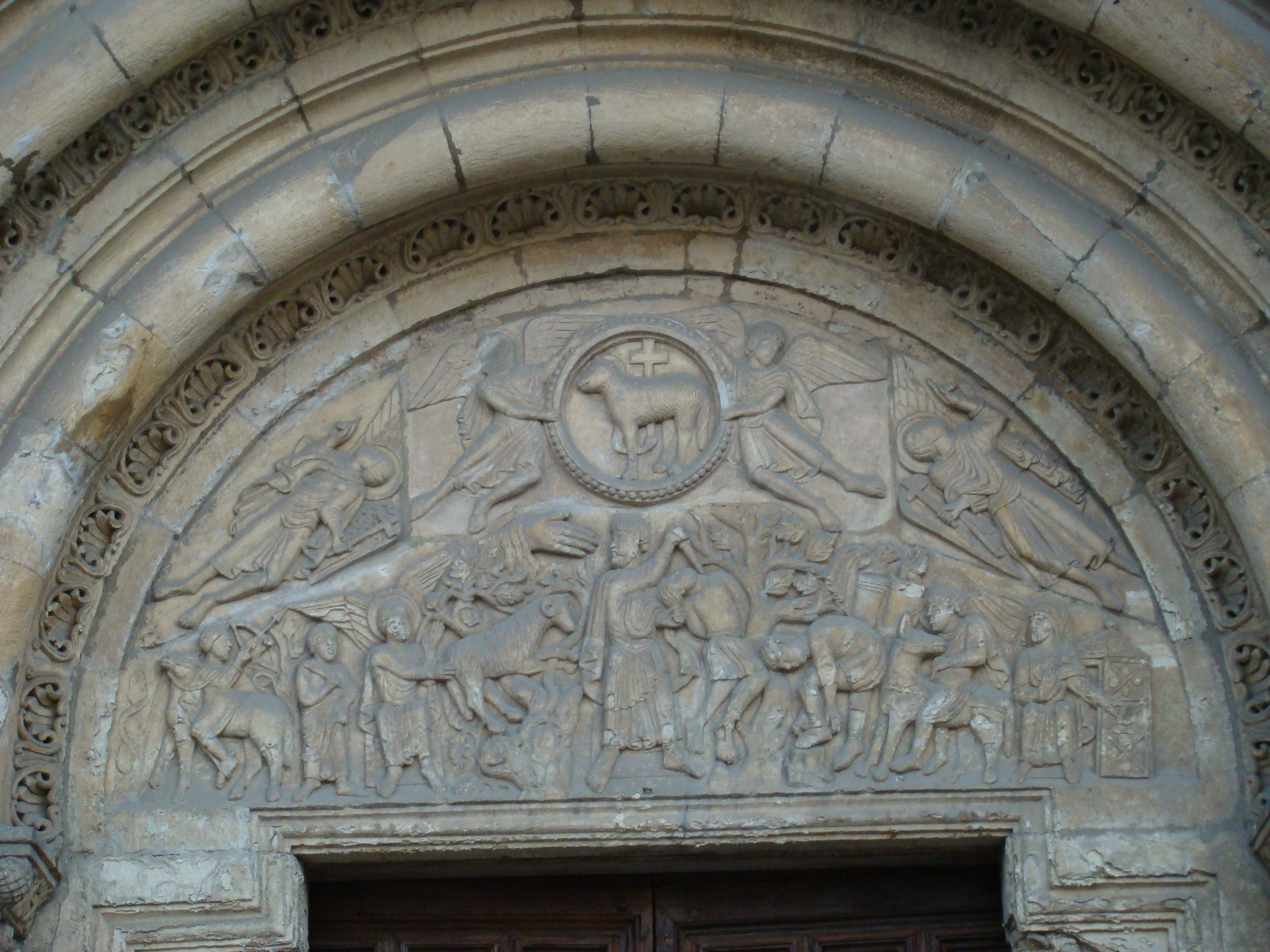 Romanesque basilica of San Isidoro in León, Spain. Tympanus of the romanesque gate of the Lamb.